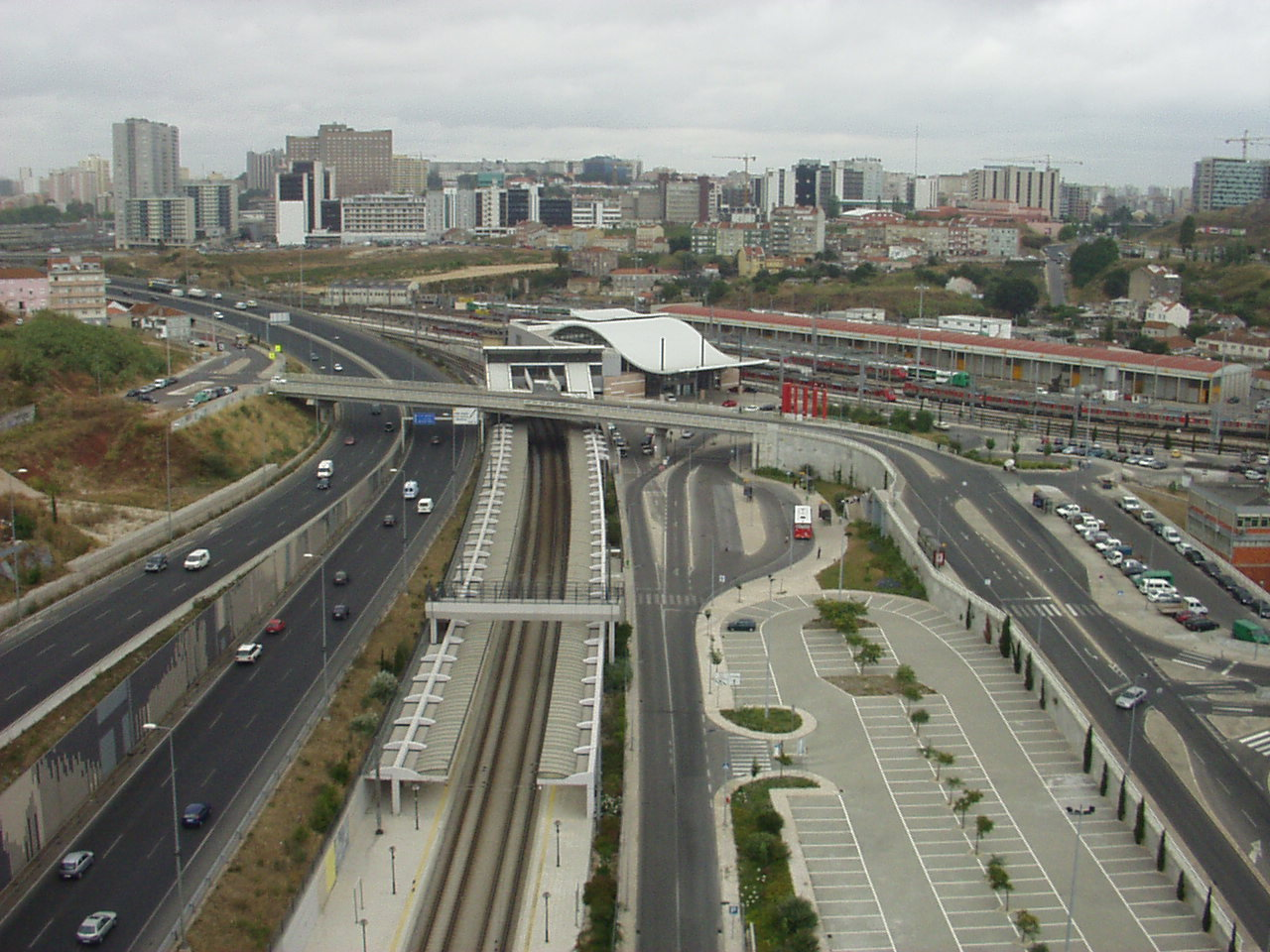 Campolide district, Lisbon, Portugal